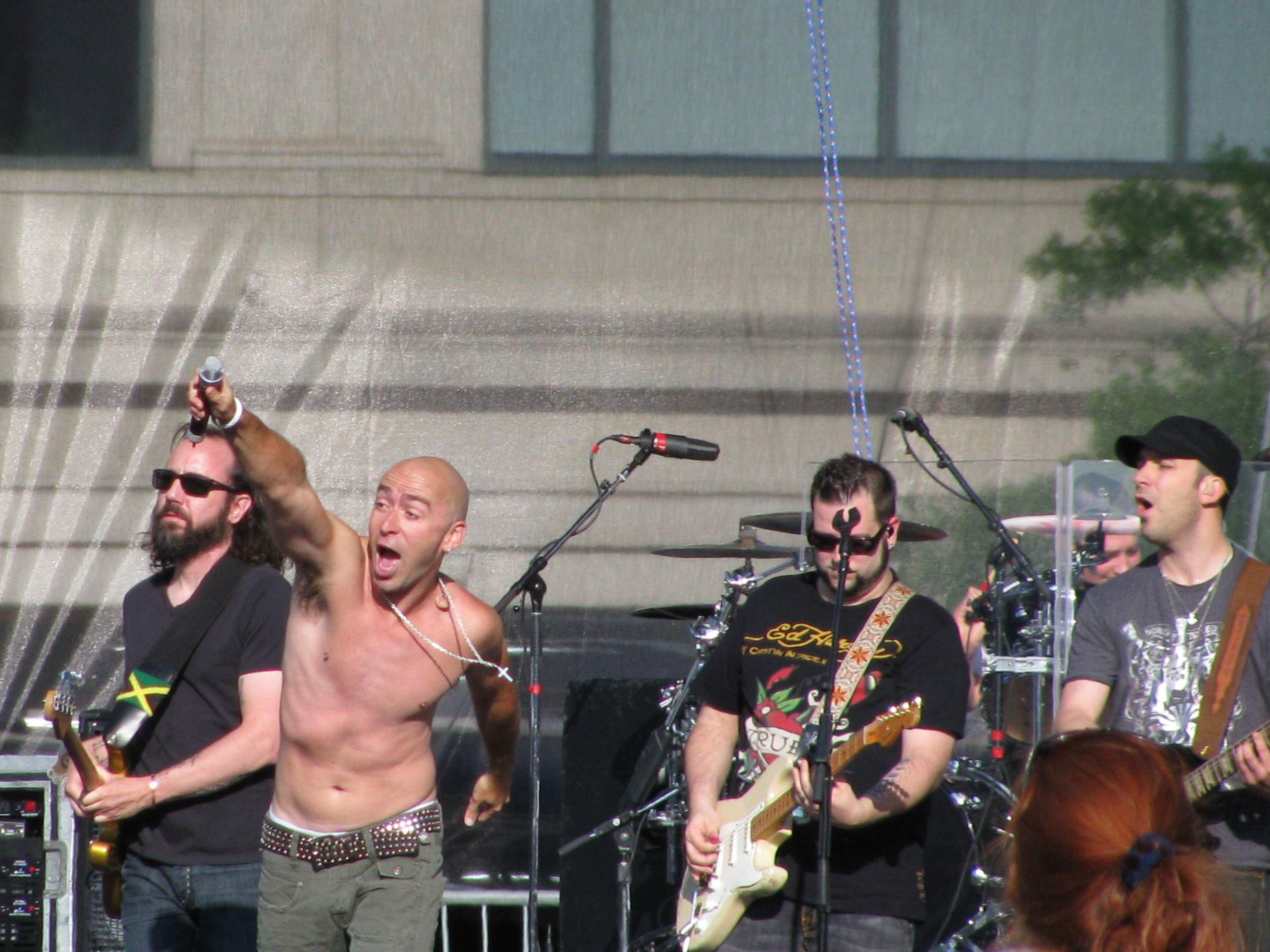 The band Live playing live at the 2008 DC 101 Chili Cookoff